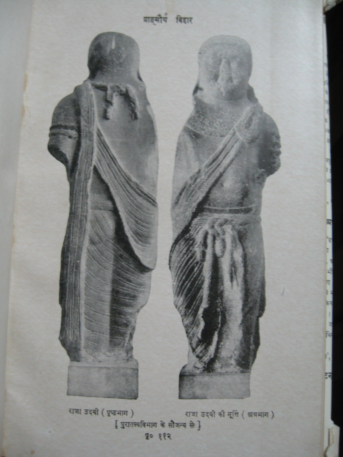 from book "Pradamaurya Bihar" Deva Sahaya Trived, 1954, Bihar Rashtra Bhasa Parishad, Patna Brahmi inscription on the image stating it as Ajatshatru - given in book